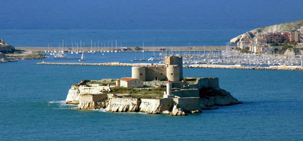 The Monte-Cristo prison known as "If castle" - Marseille France